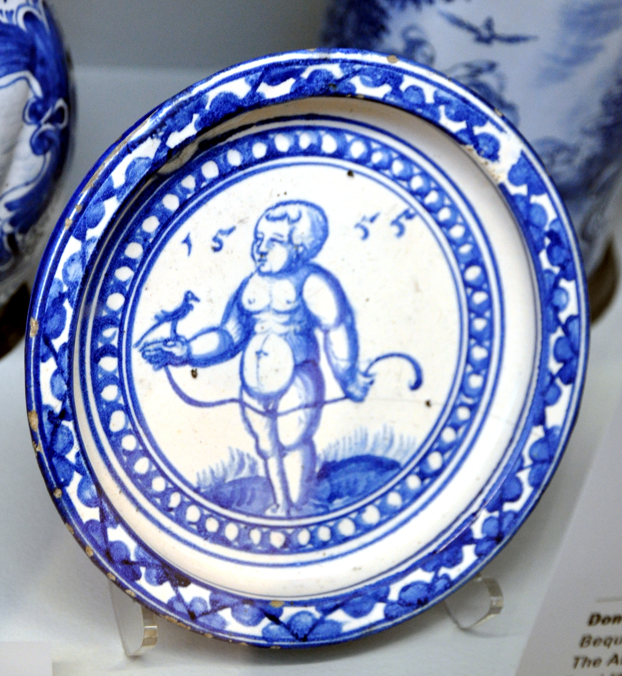 Dish, probably made in Nürnberg (Nuremberg, Germany), dated 1555; tin-glazed earthenware, painted in cobalt blue Victoria and Albert Museum, London, museum no. 3838-1901 (Link)